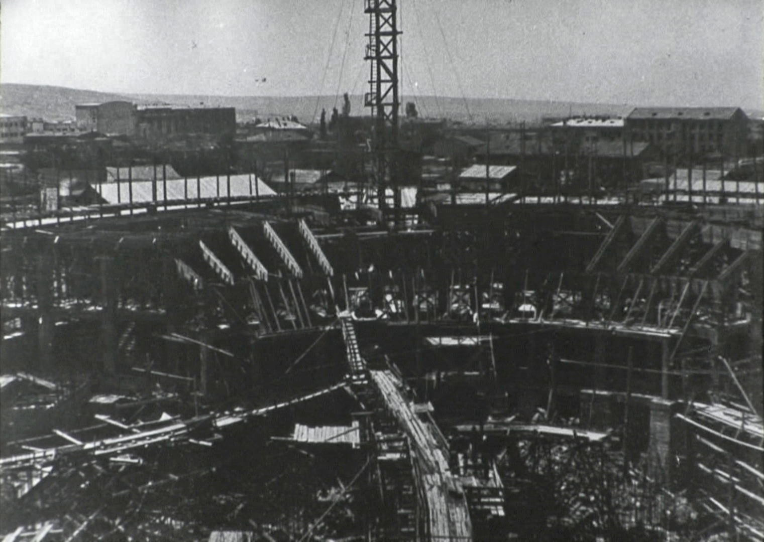 Yerevan Opera Construction